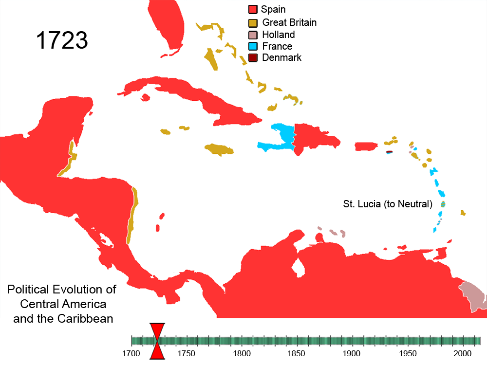 Political Evolution of Central America and the Caribbean